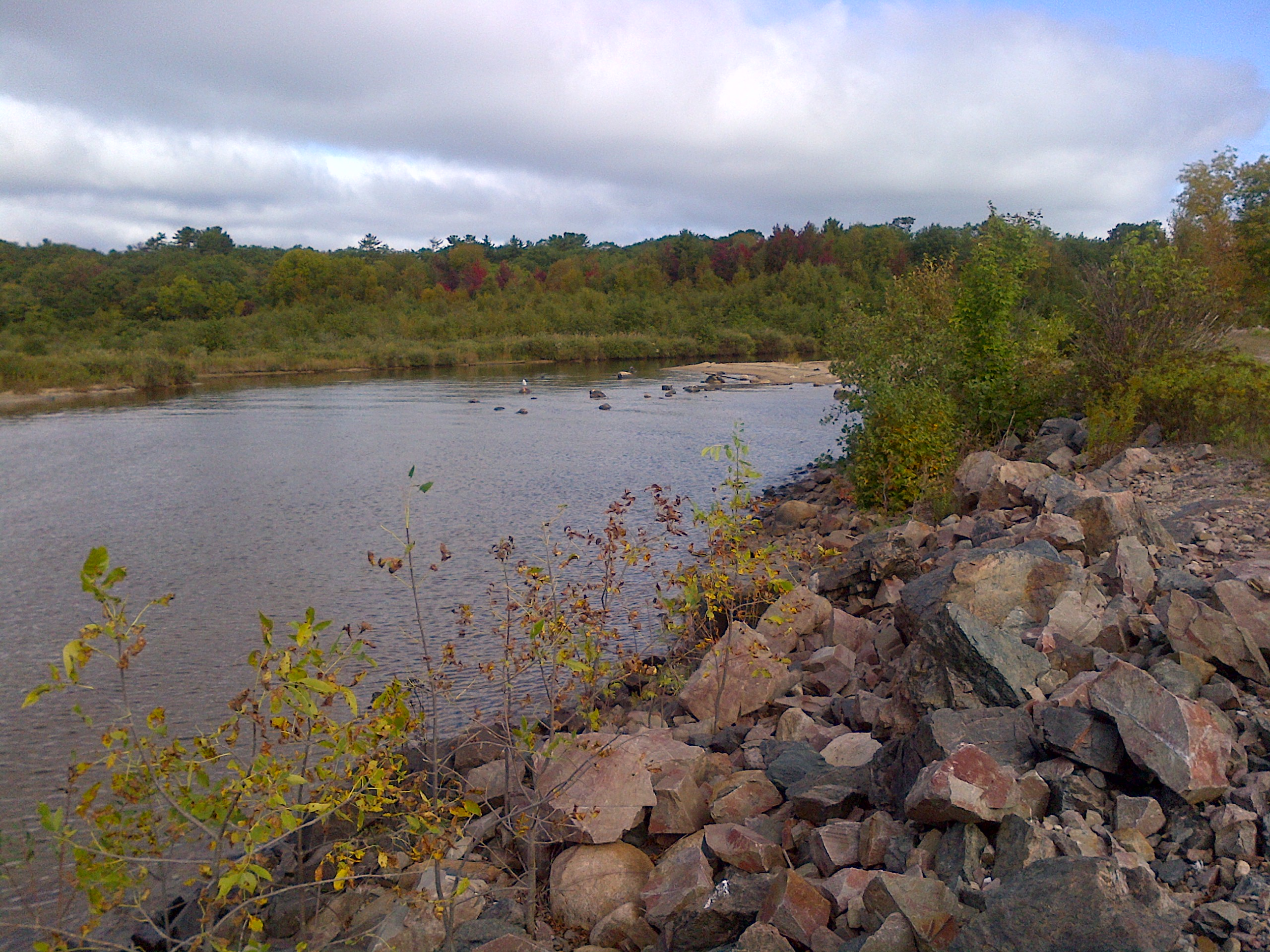 Blind River, Northern Ontario